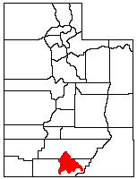 Location of the Kaiparowits Plateau within Utah.